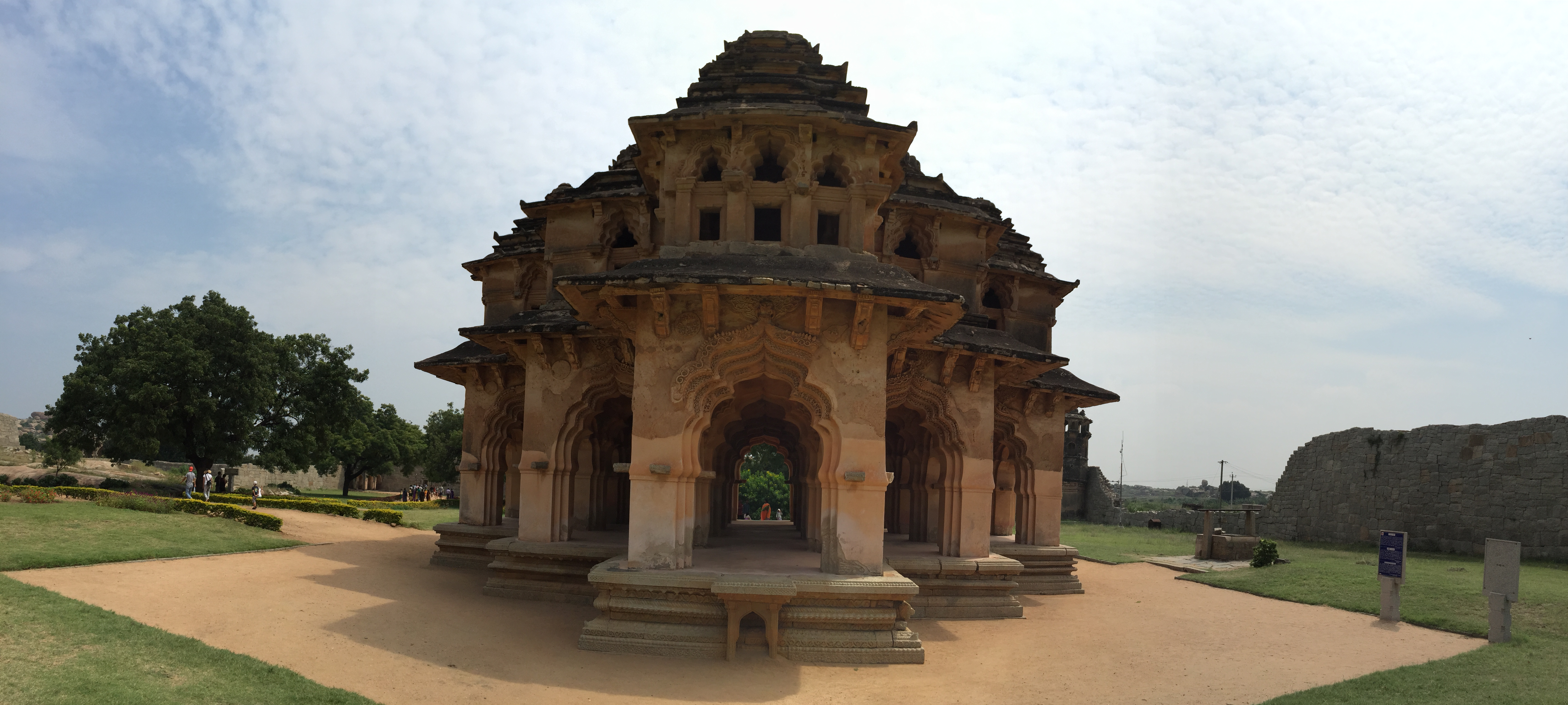 Panorama of Lotus Mahal and compound.